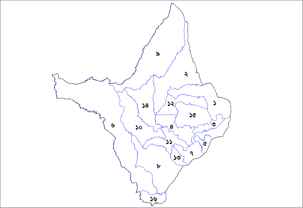 Map of the municipalities of the state of Amapa, Brazil. Created by Rarelibra 19:00, 24 August 2006 (UTC) for public domain use. Created using MapInfo Professional v8.5 and various mapping resources. Updated by Gcoliveira 02:08, 16 November 2006 (UTC). Just changed the identifier of four municipalities, using Adobe Photoshop CS2.